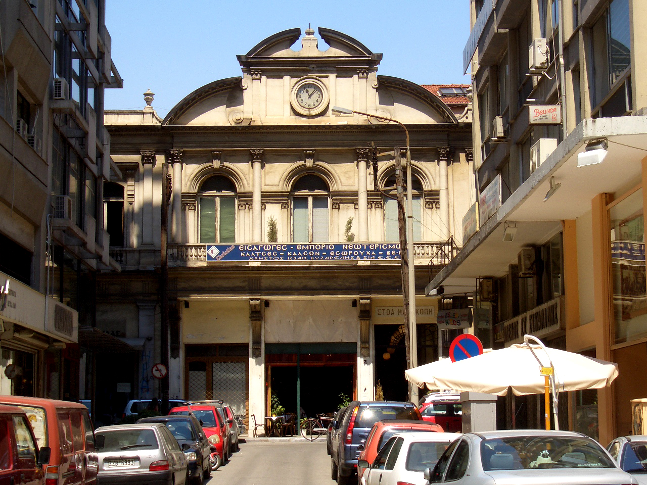 Art nouveau edifice in the Old Market, Thessaloniki